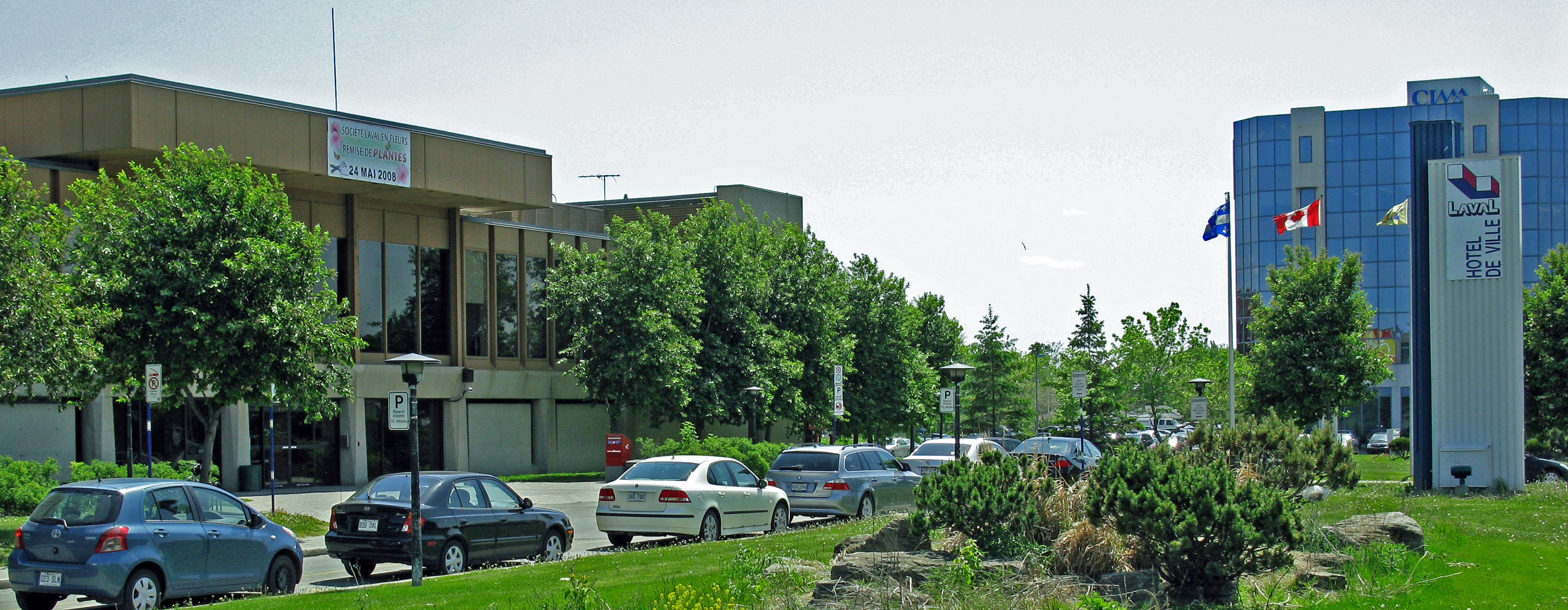 Laval city hall in the province of Quebec, Canada.